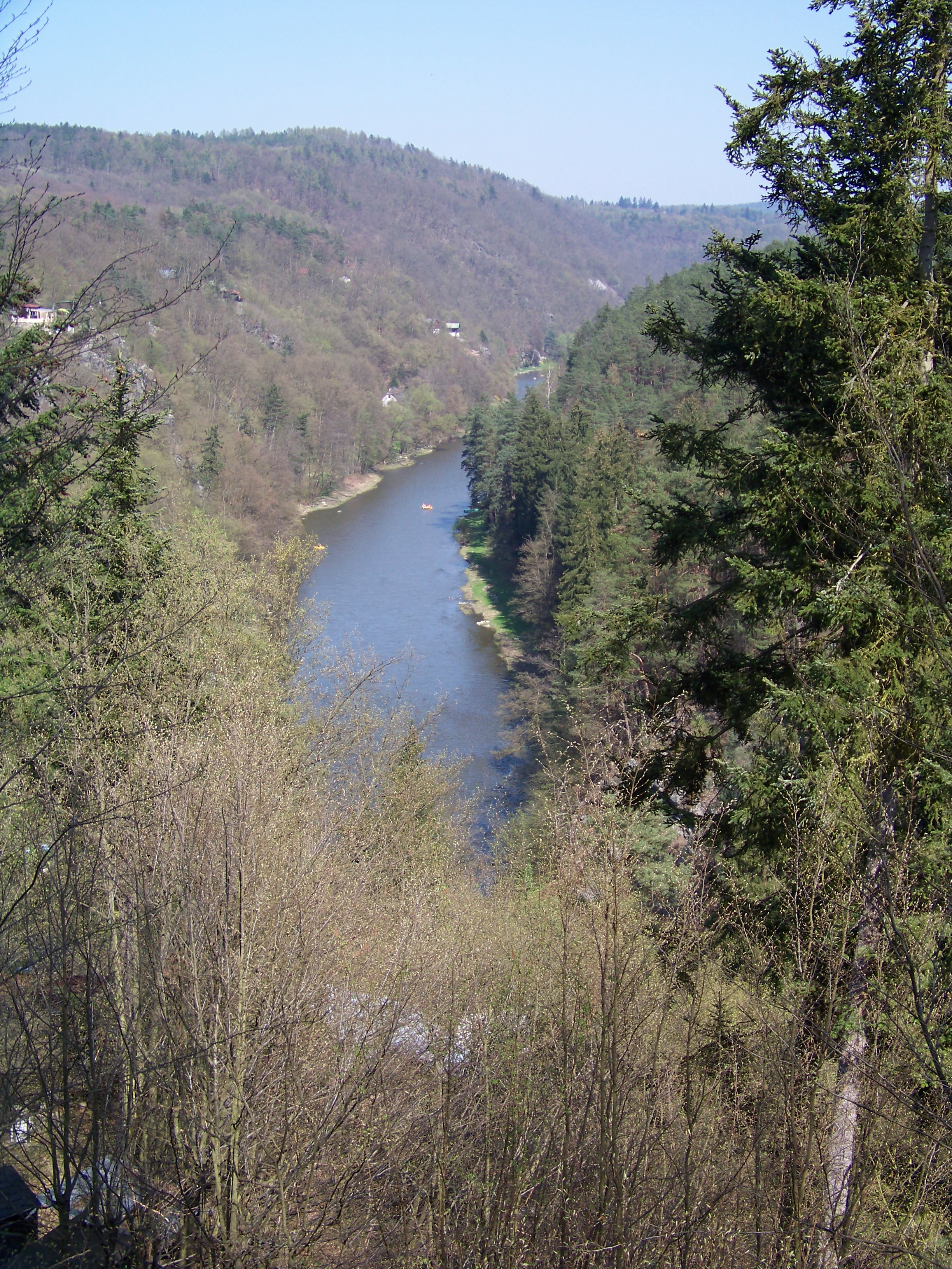 Hradištko, Central Bohemian Region, the Czech Republic. Trail along Sázava River.